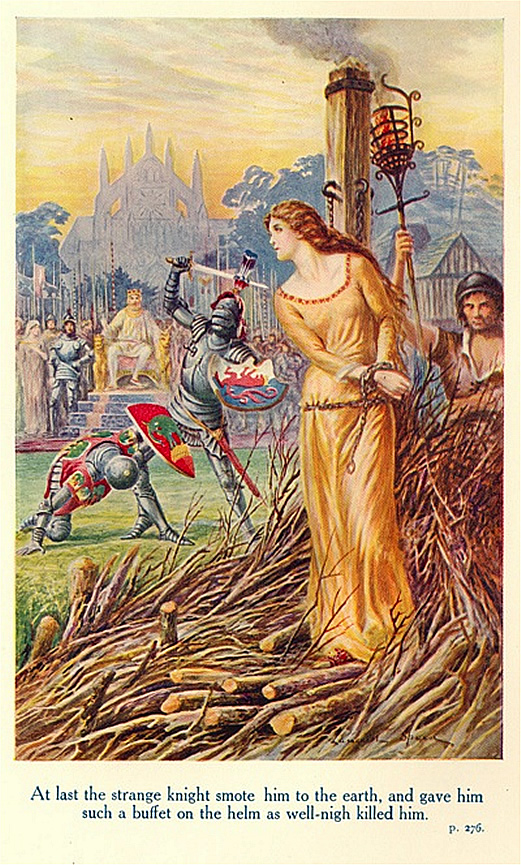 At last the strange knight smote him to the earth, and gave him such a bugget on the helm as well-night killed him.